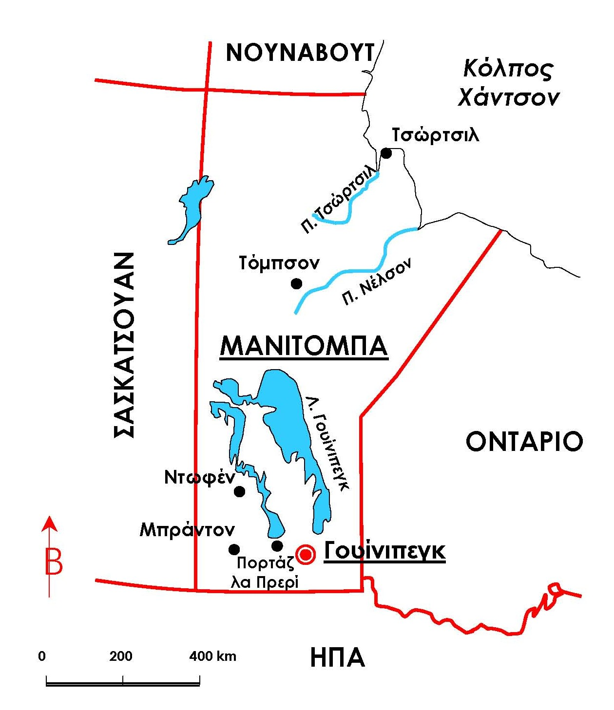 Map of Manitoba in Greek